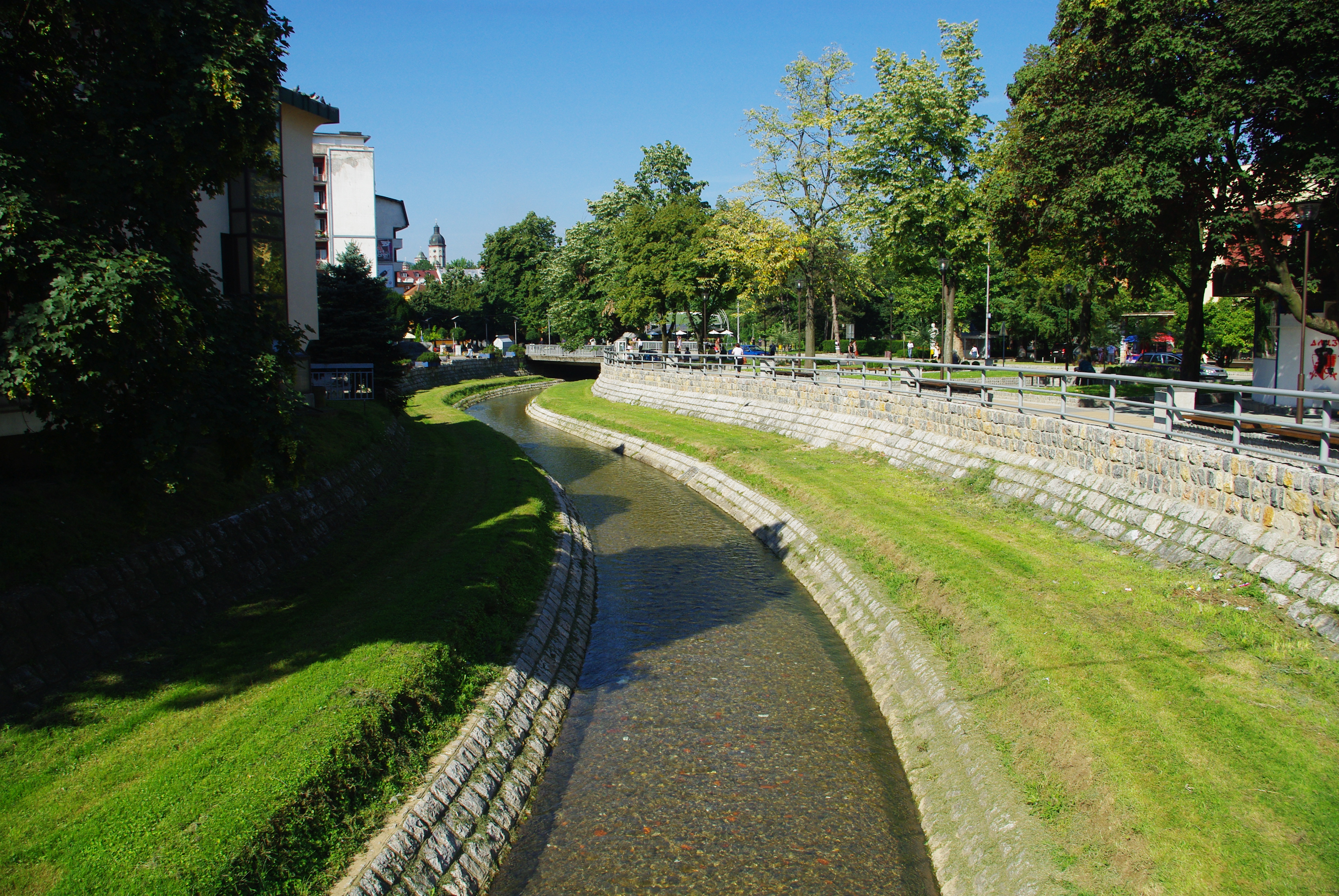 Štira creek in Loznica,Serbia.